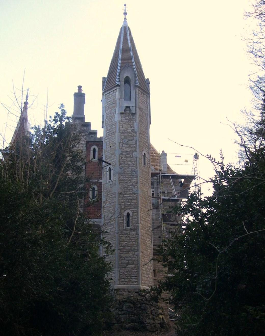 The "castel of the jewish" located in Besançon (Doubs, France).